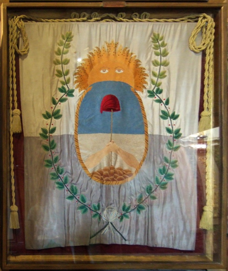 Flag of the Andes, used by José de San Martín. Replica in the Cathedral of Buenos Aires, next to the tomb of San Martín. Today flags with this design are used, as the province flag of Mendoza.